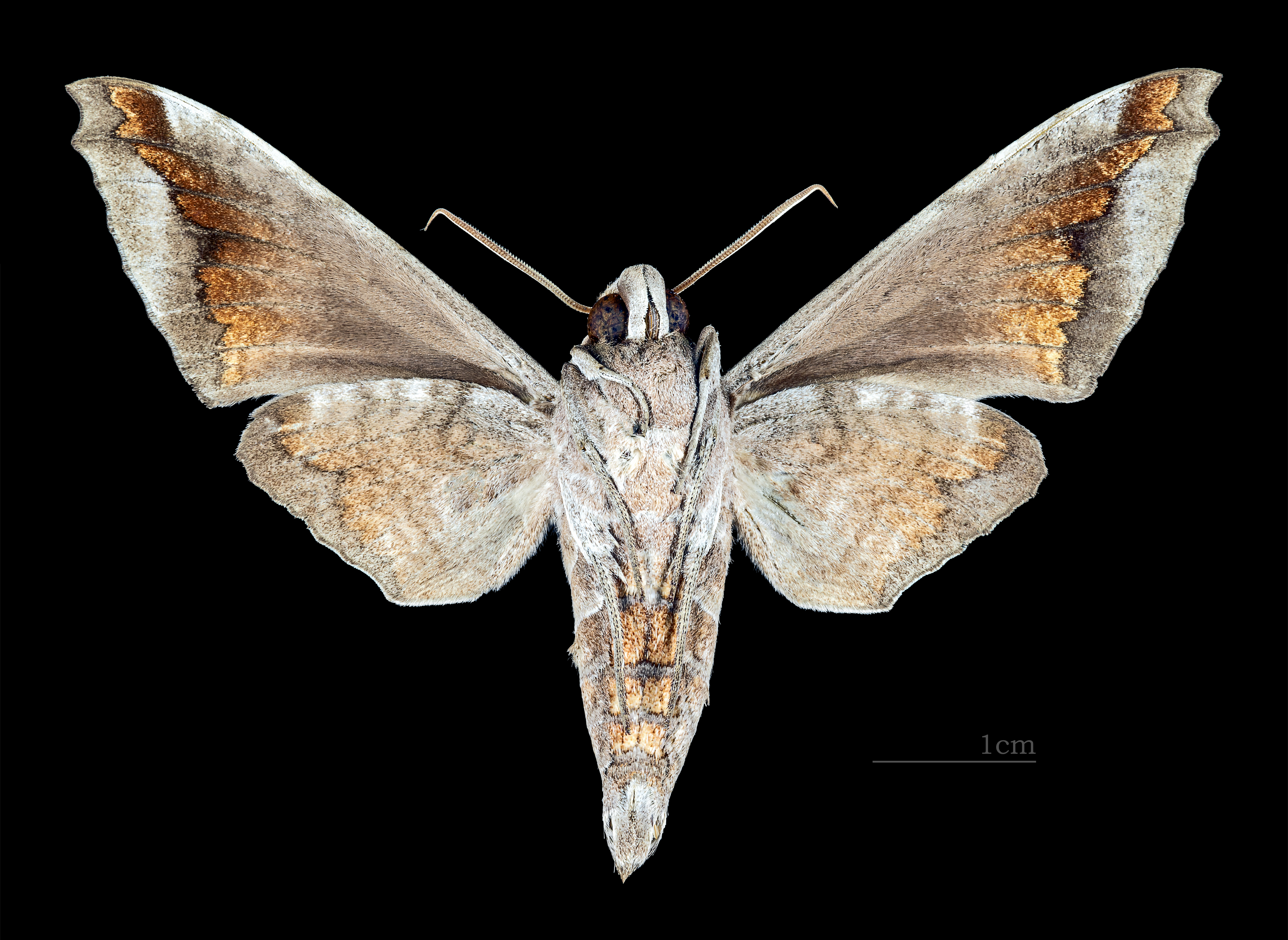 Acosmeryx pseudomissa - △ Ventral side Collection of the Mathematician Laurent Schwartz